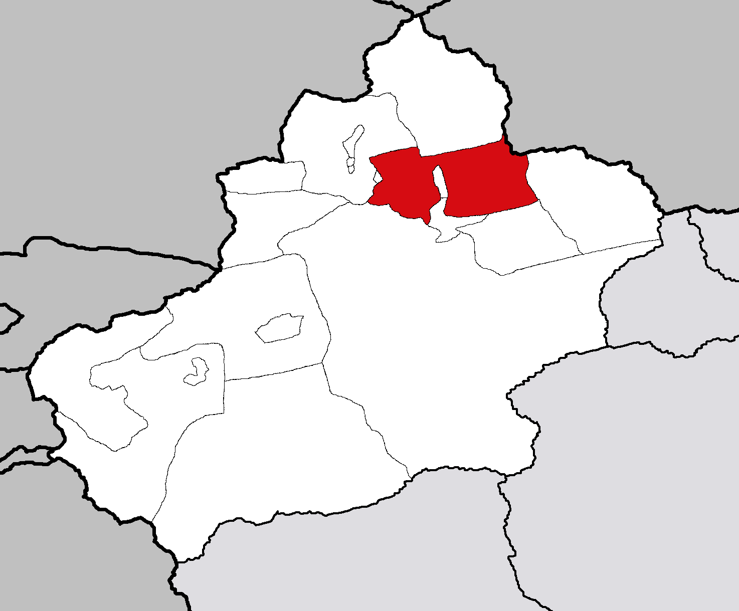 Maps of Xinjiang Uygur Autonomous Region of China